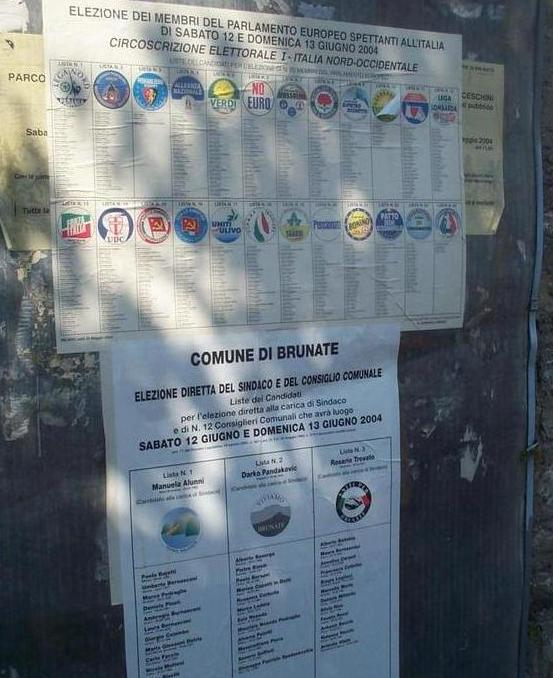 announcement of elections in Brunate (near Como), Italy, 2004-06-07.